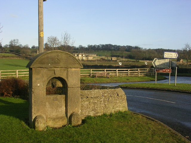 Village pinfold at the northern end of Gilling West. Remains of village pinfold for stray sheep and water fountain, 1897.